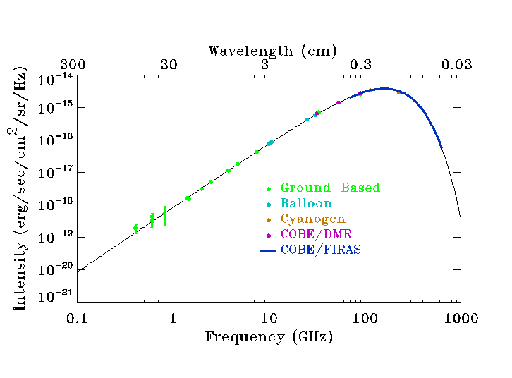 The plot shows a set of precise measurements of the intensity of the cosmic microwave background (colored points) compared to a perfect blackbody curve (thin black line). Colors indicate the measurement techniques. The data are in excellent agreement with a blackbody curve over nearly 4 decades in frequency and more than 5 orders of magnitude in intensity. This graph image could be recreated using vector graphics as an SVG file. This has several advantages; see Commons:Media for cleanup for more information. If an SVG form of this image is available, please upload it and afterwards replace this template with vector version available|new image name .